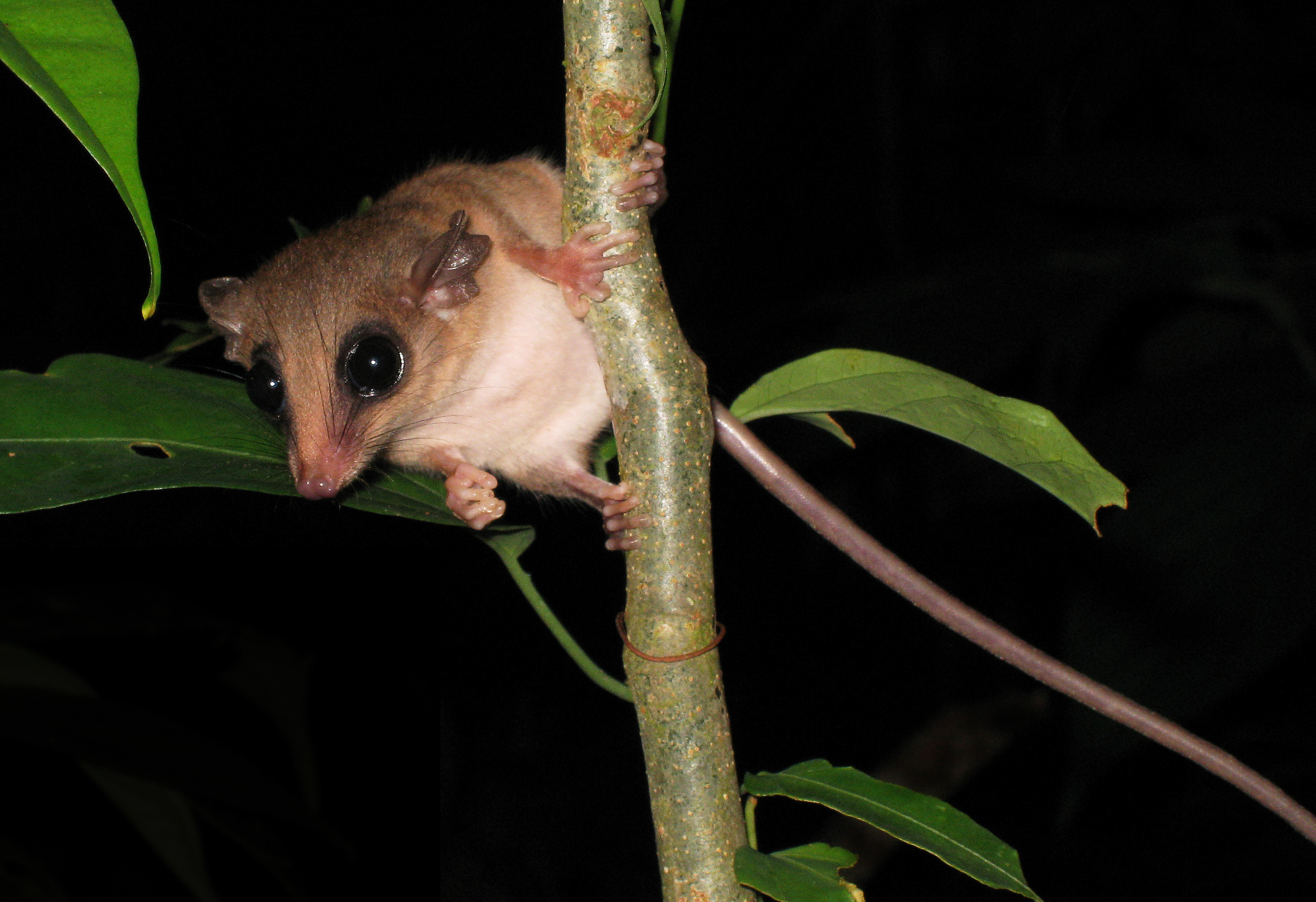 Mouse Opossum (Marmosa/Micoureus sp.) in the Tambopata Reserve, Peru.